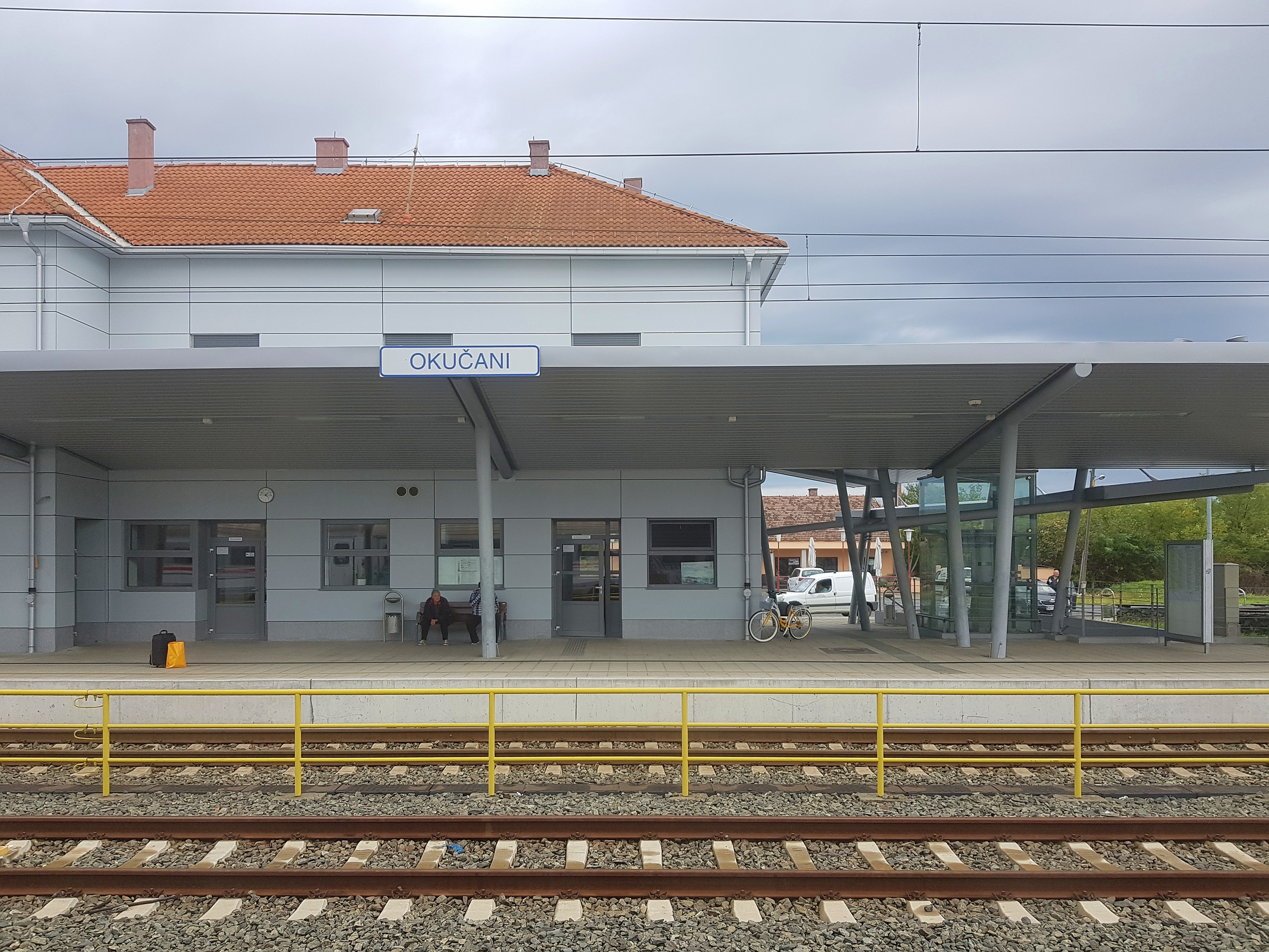 Okučani train station